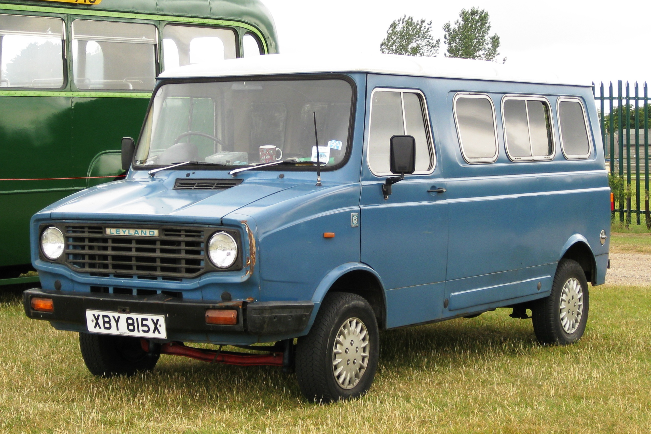 Leyland Sherpa ca 1982